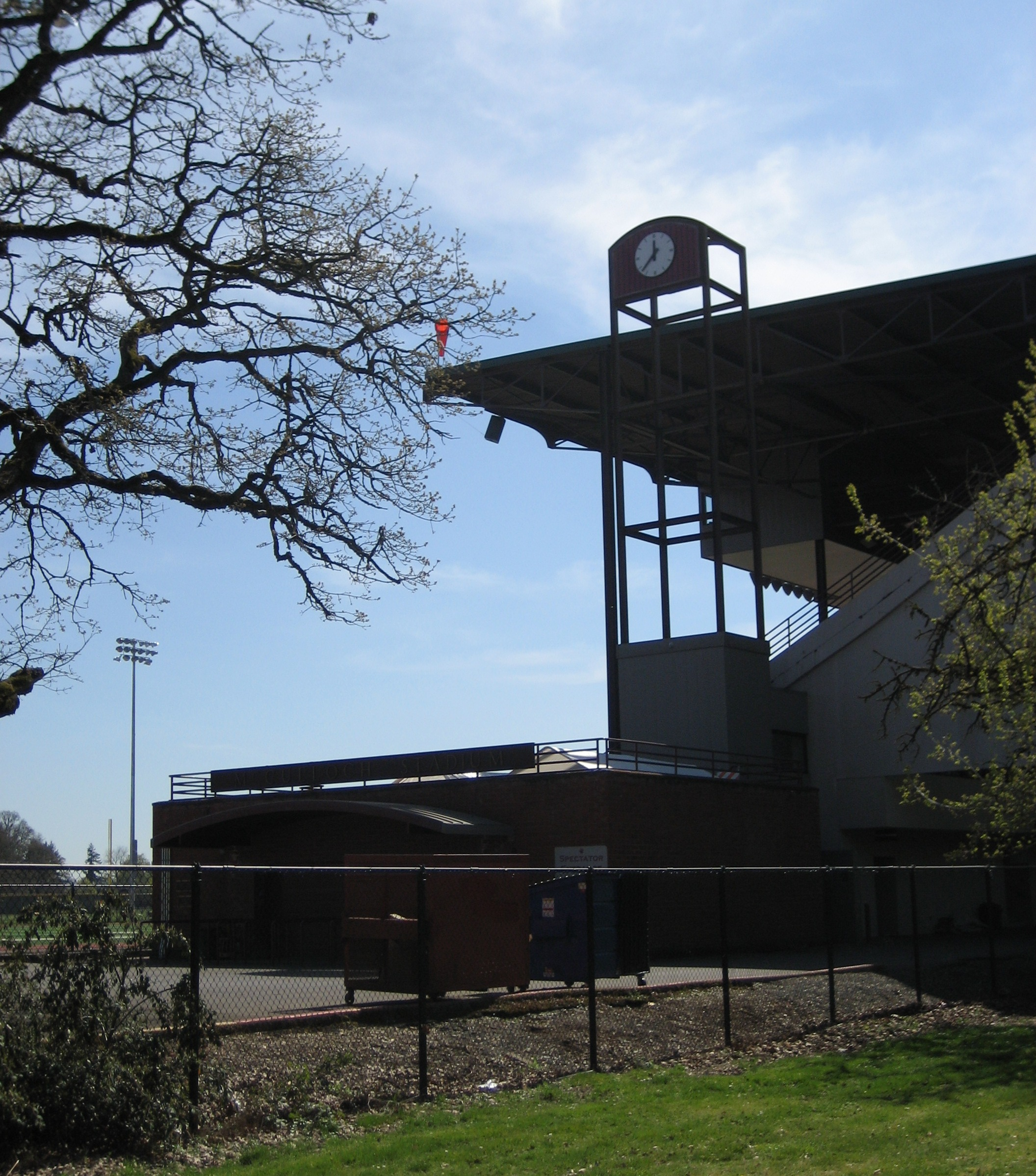 McCulloch Stadium owned by Willamette University